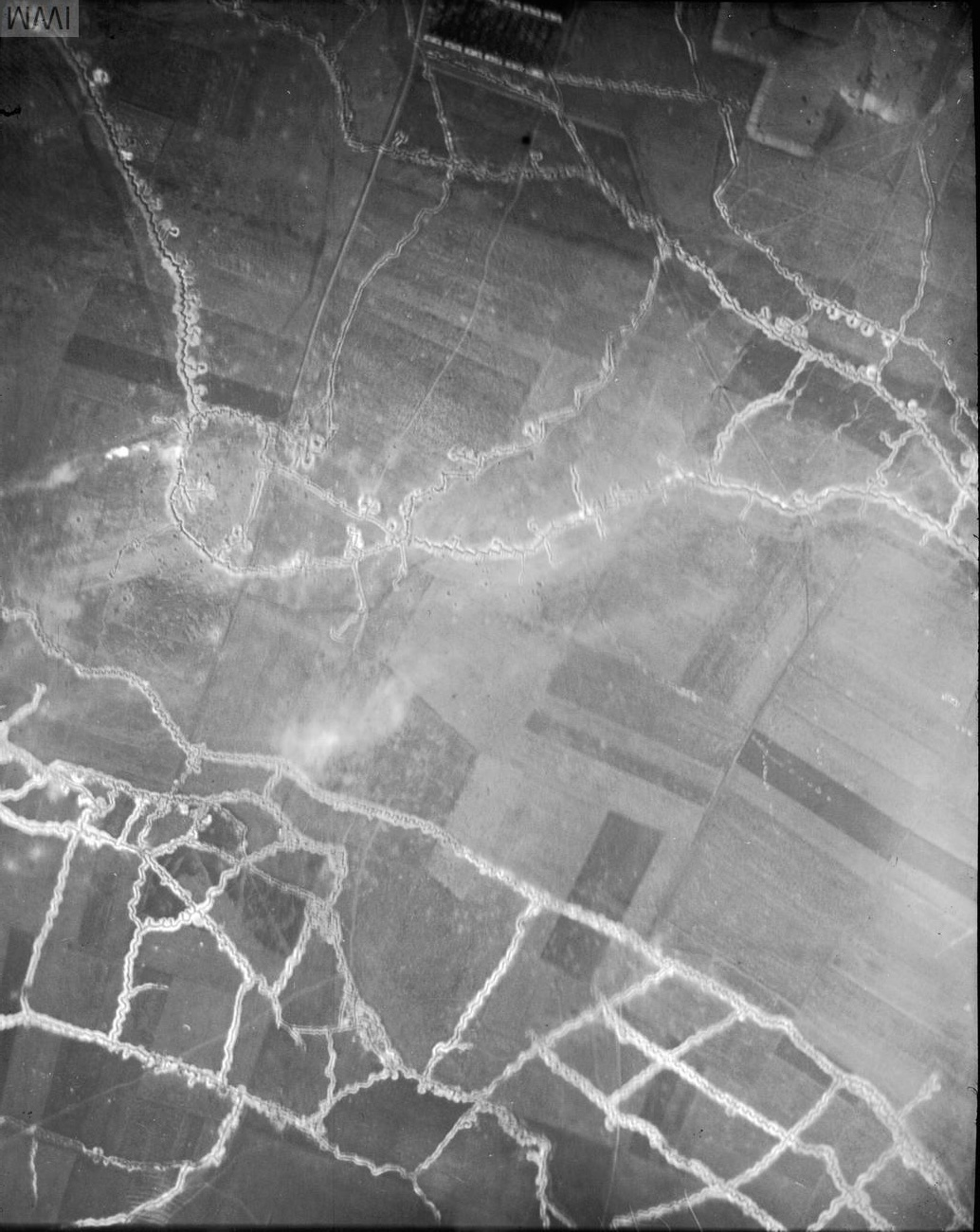 Aerial photograph of the Hohenzollern redoubt, near Auchy-les-Mines, France. German lines are across the top right, the Hohenzollern Redoubt is the tip of the salient protruding southwest; British lines are across botton left. NOTE : The original photograph has North at bottom. This version has been rotated 180° to place North approximately at top to facilitate comparison with maps.